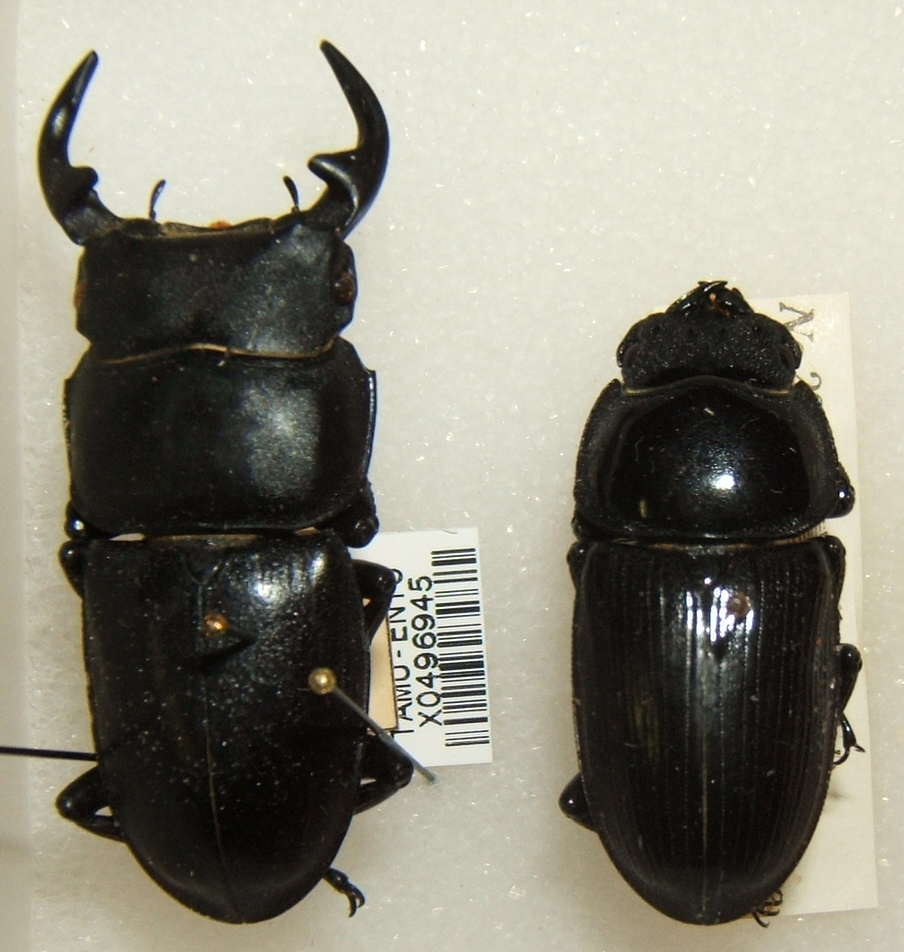 Dorcus curvidens hopei adult taken by Shawn Hanrahan at the Texas A&M University Insect Collection in College Station, Texas.